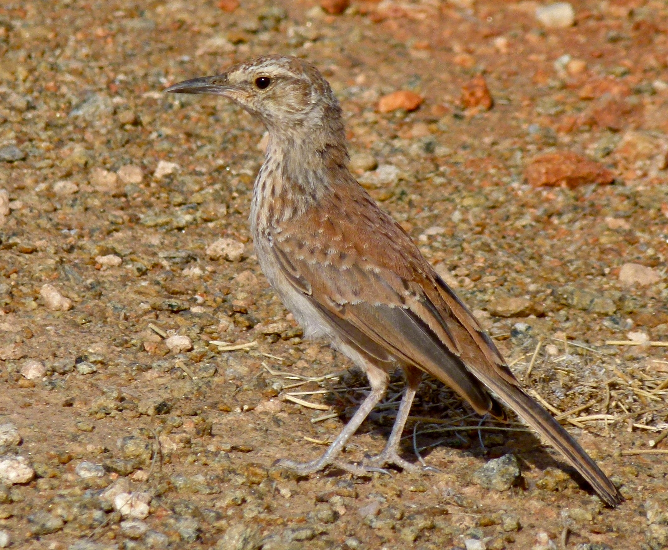 An immature Karoo long-billed lark at Augrabies National Park, SOUTH AFRICA